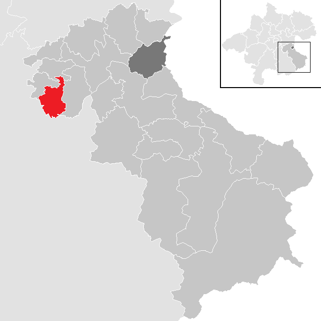 district Steyr-Land